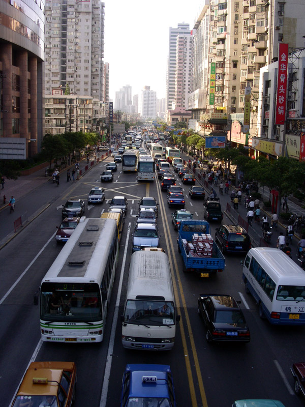 Shanghai trafficphoto by Fumikolicensed under CC江苏路（从延安西路望向利西路段）